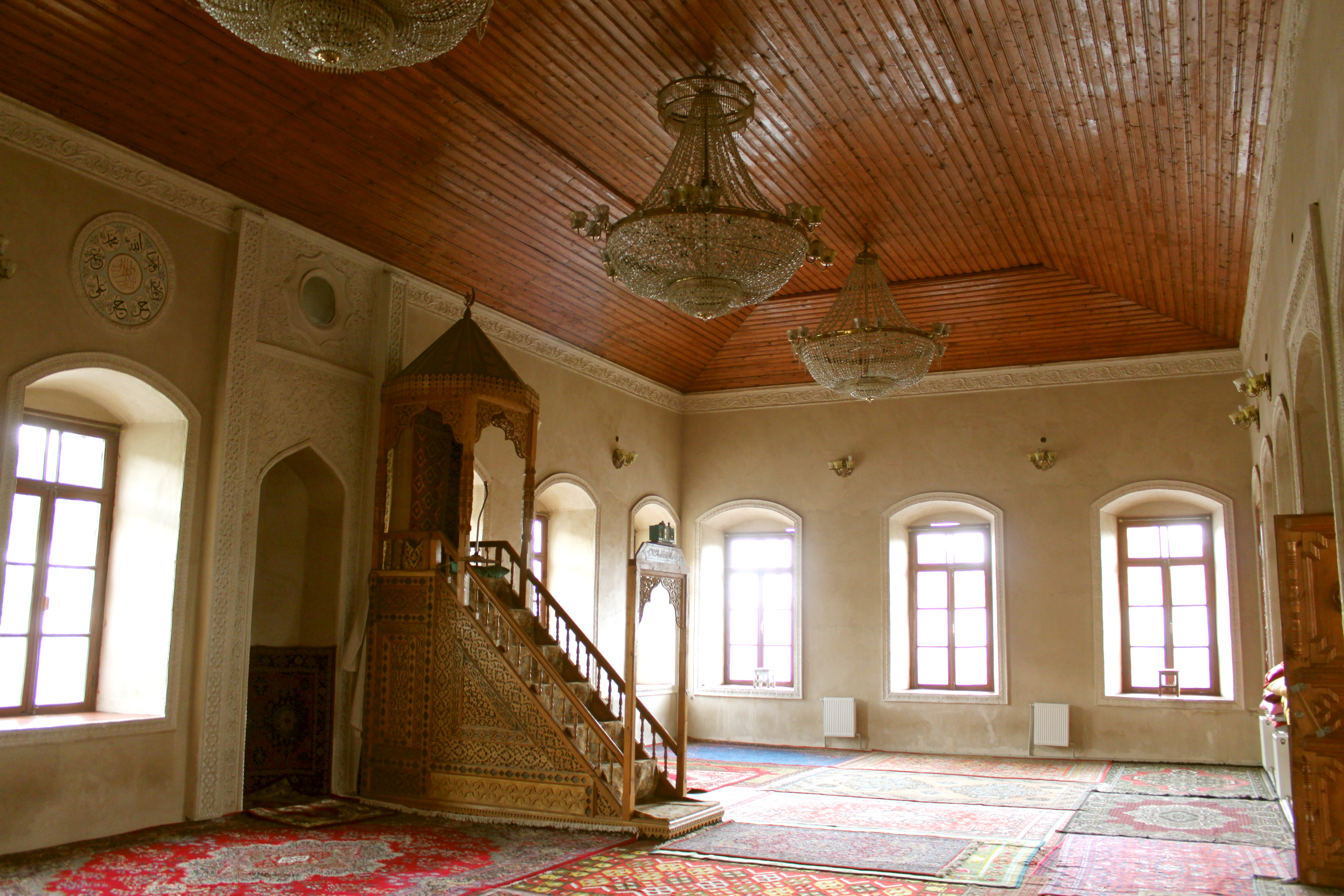 Interior of Omer Efendi mosque